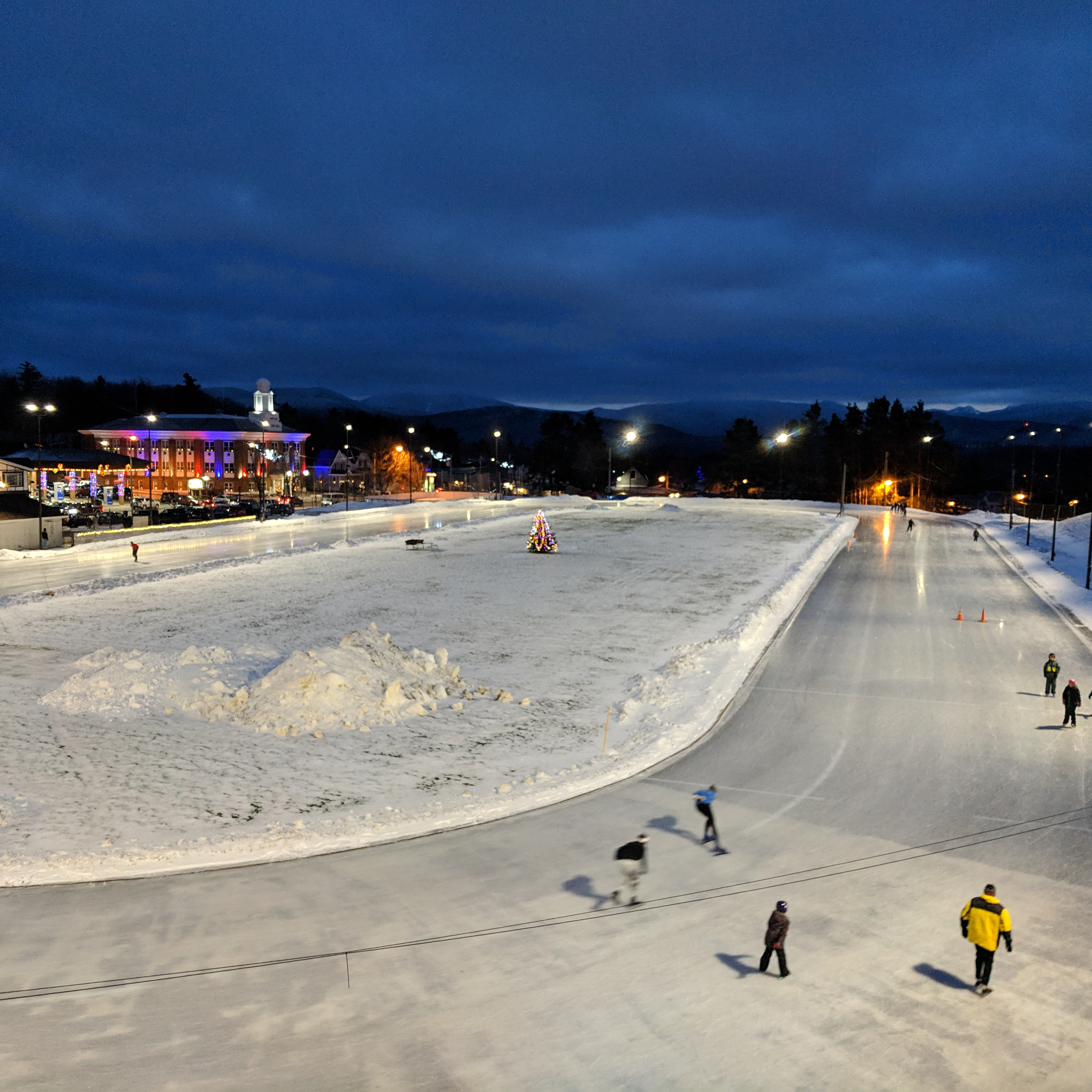 Olympic City / Town Winter Sports Lake Placid, New York December 23, 2018